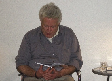 Lesung Dr. Christian G. Pätzold